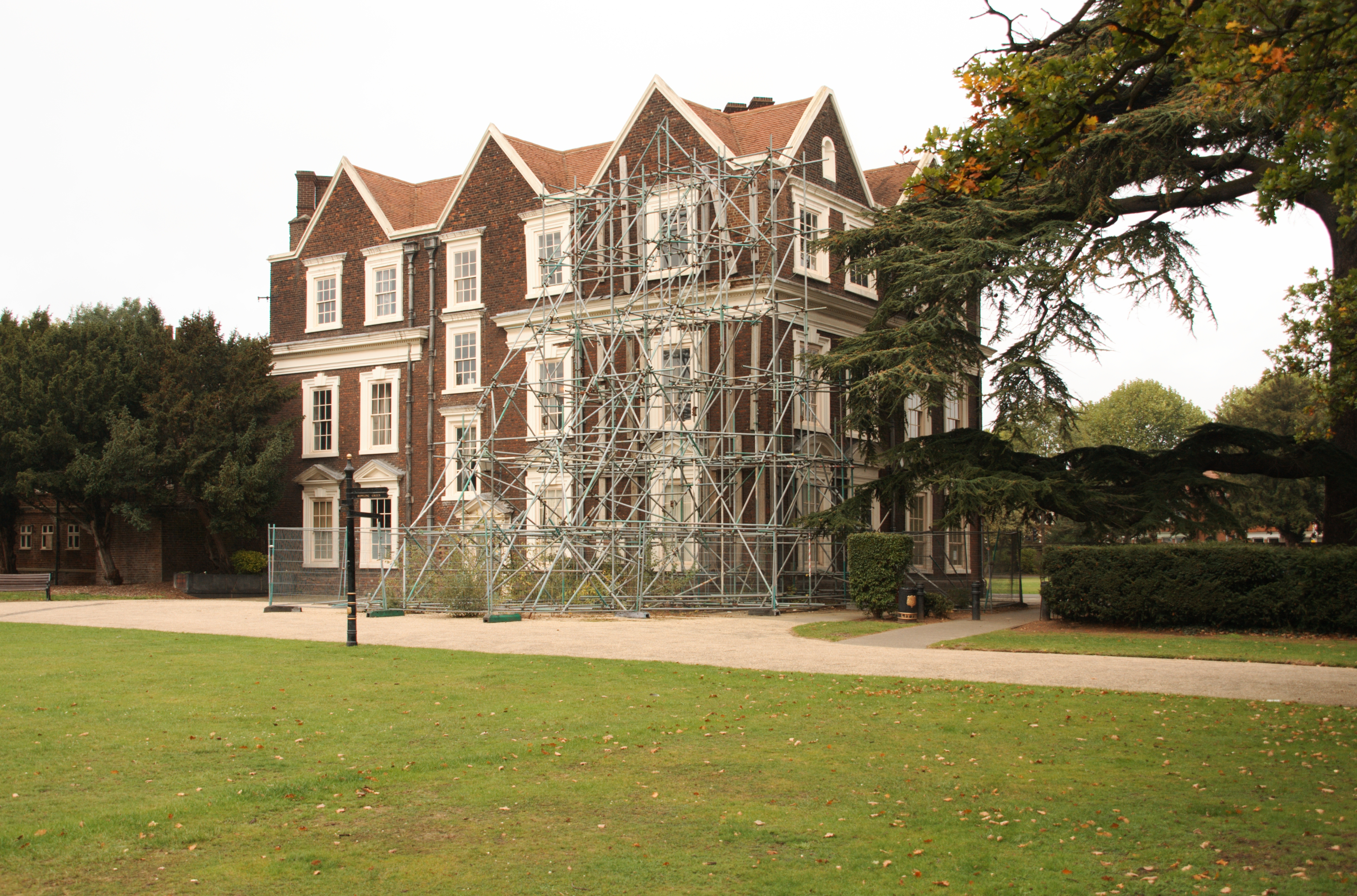 Boston Manor House, south west corner with its long term 'temporary' supporting scaffolding. Currently on the English Heritage at Risk Register. Basic repair work to this building estimated to cost a minimum of £1.3M. Owners pursuing possible future options for use.